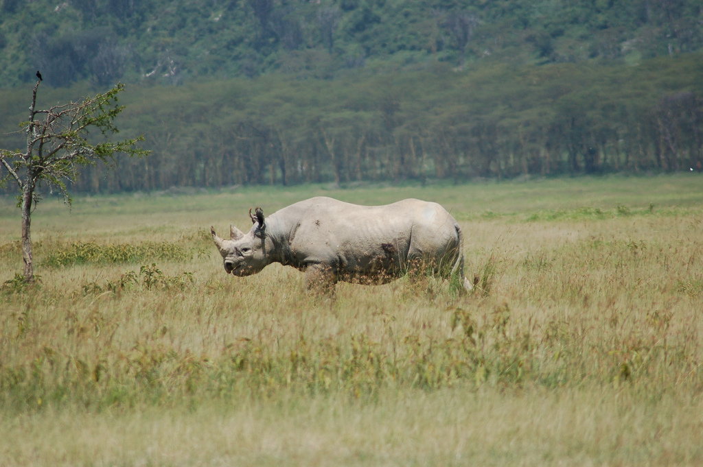 Black Rhino (Diceros bicornis michaeli) in Lake Nakuru NP, Kenya